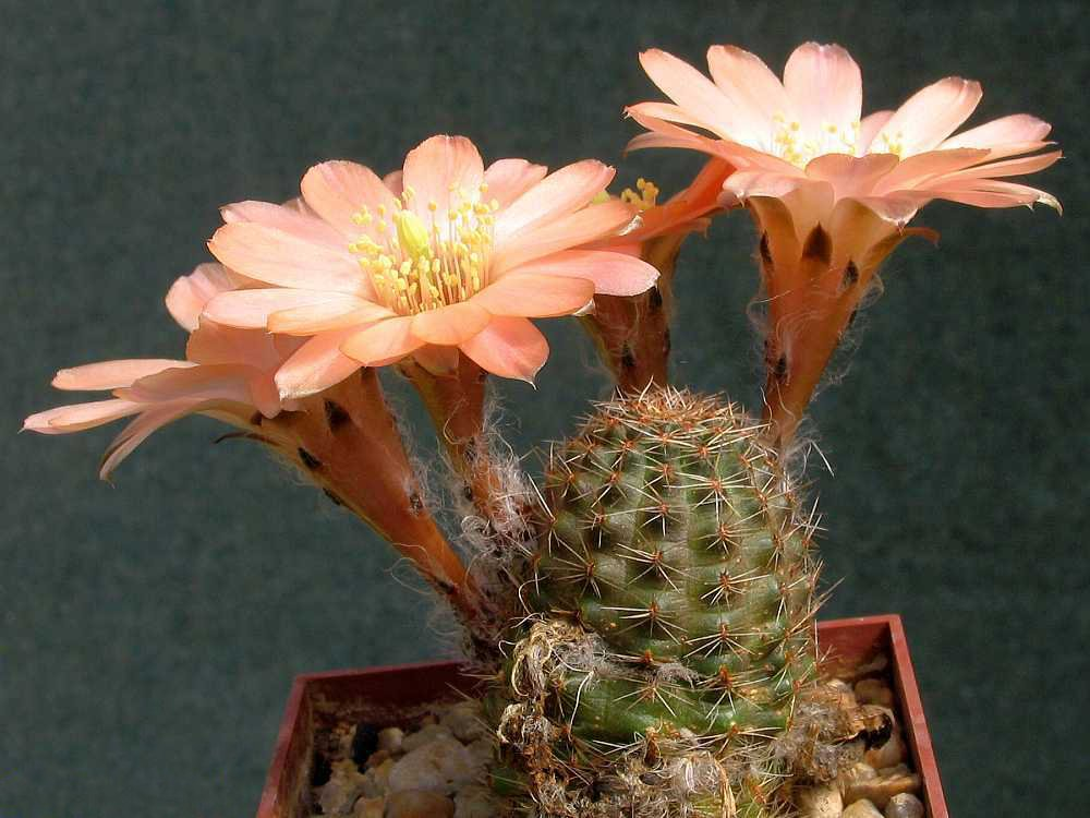 Rebutia pygmaea (Fries) Br. & R. - cultivated plant from own collection.